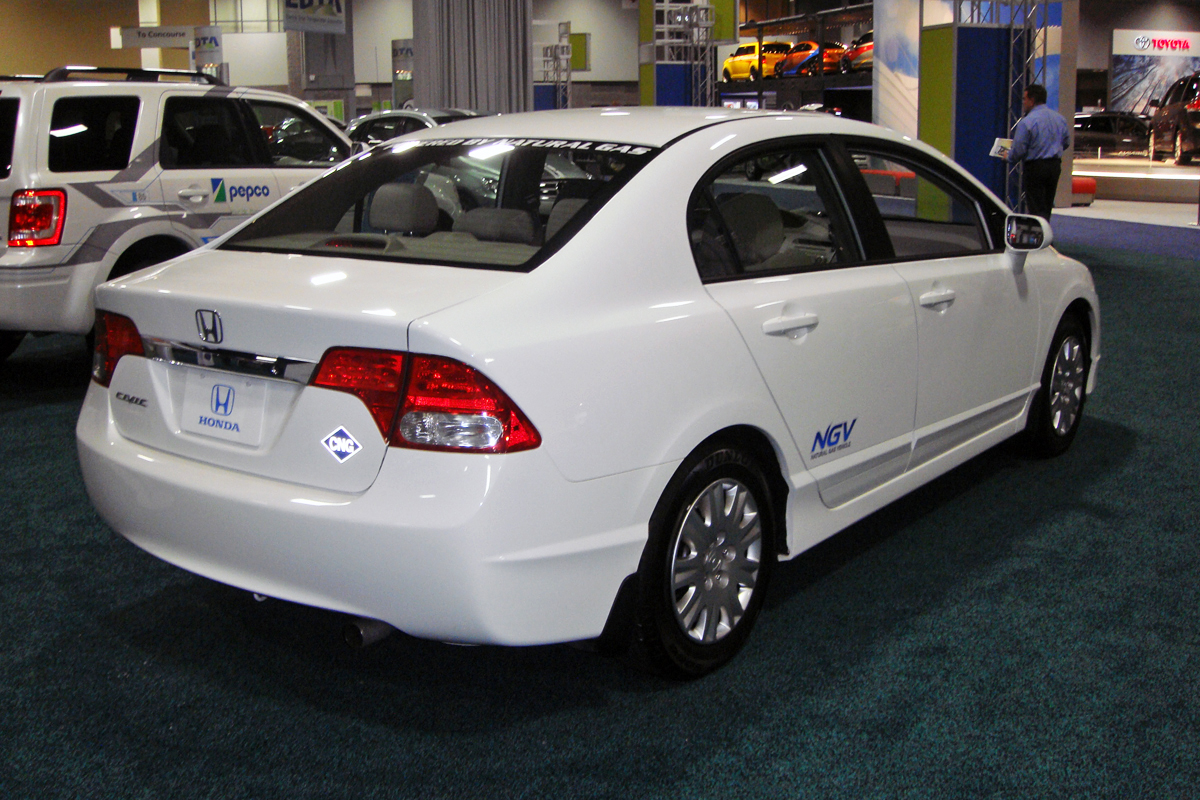 2010 Honda Civic GX NGV (Natural Gas Vehicle) at the 2010 Washington Auto Show (D.C.)